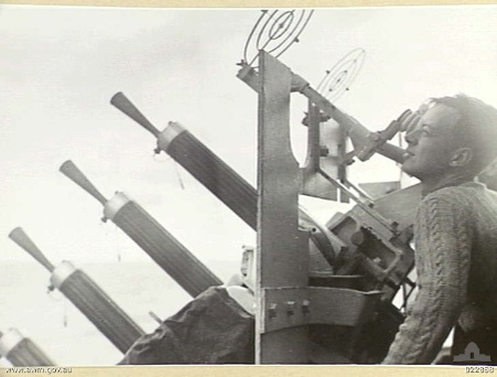 Photograph of gunner aiming a 4-gun mounting of Vickers .50 anti-aircraft machine guns, on Australian destroyer HMAS Napier.